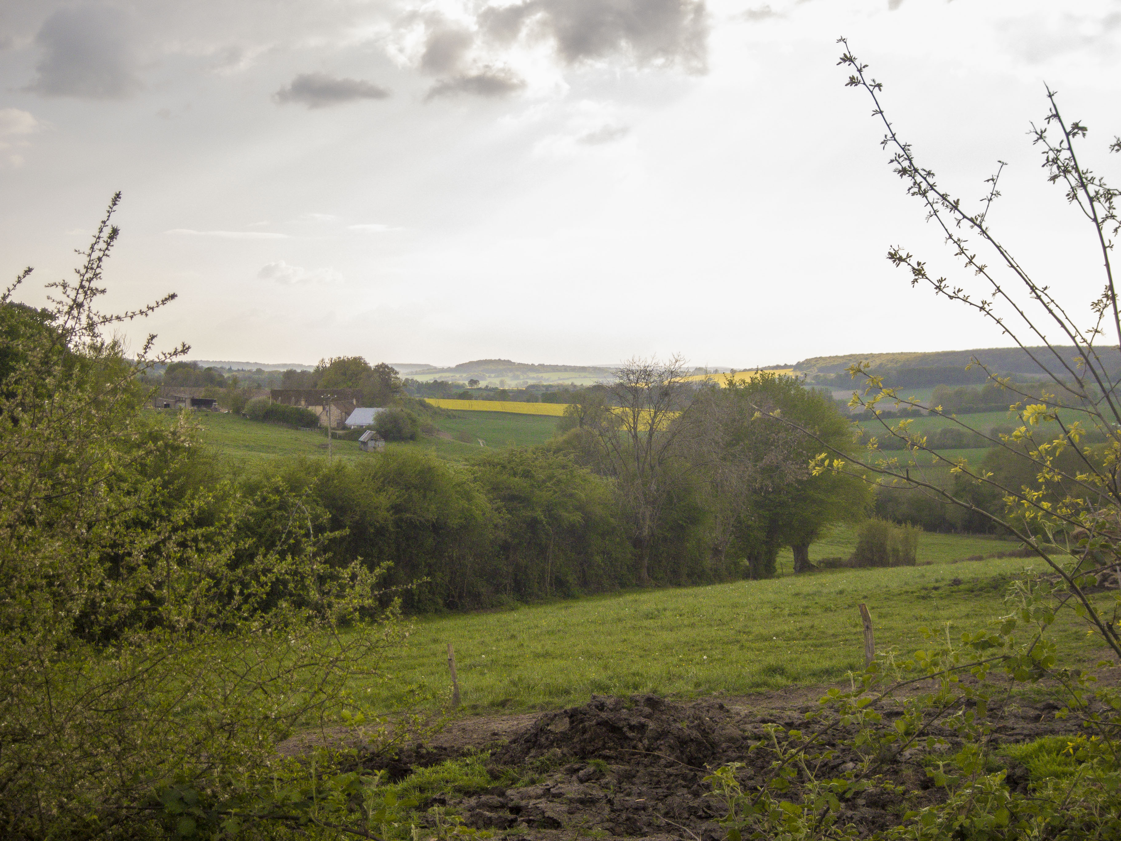 Le Perche near Authon-du-Perche, Eure-et-Loir (France).